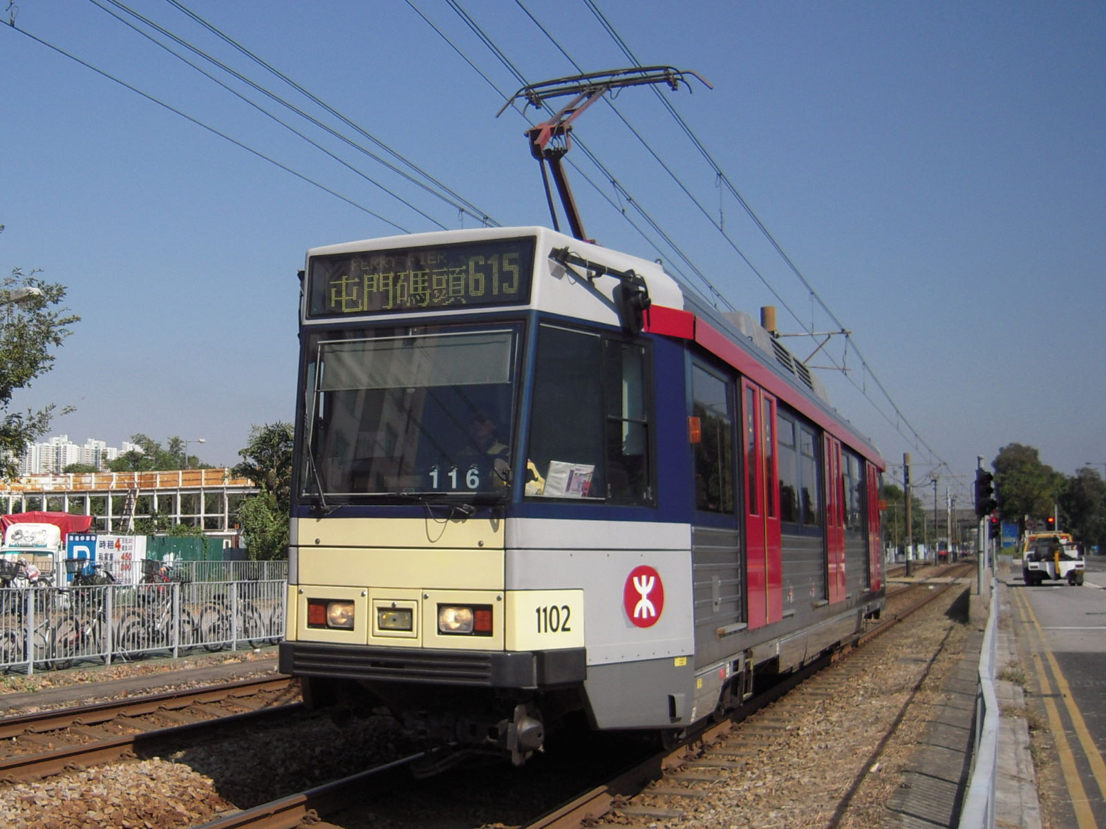 MTR third phrase rolling stock LRT Train 1102 on route 615 at Hung Shui Kiu